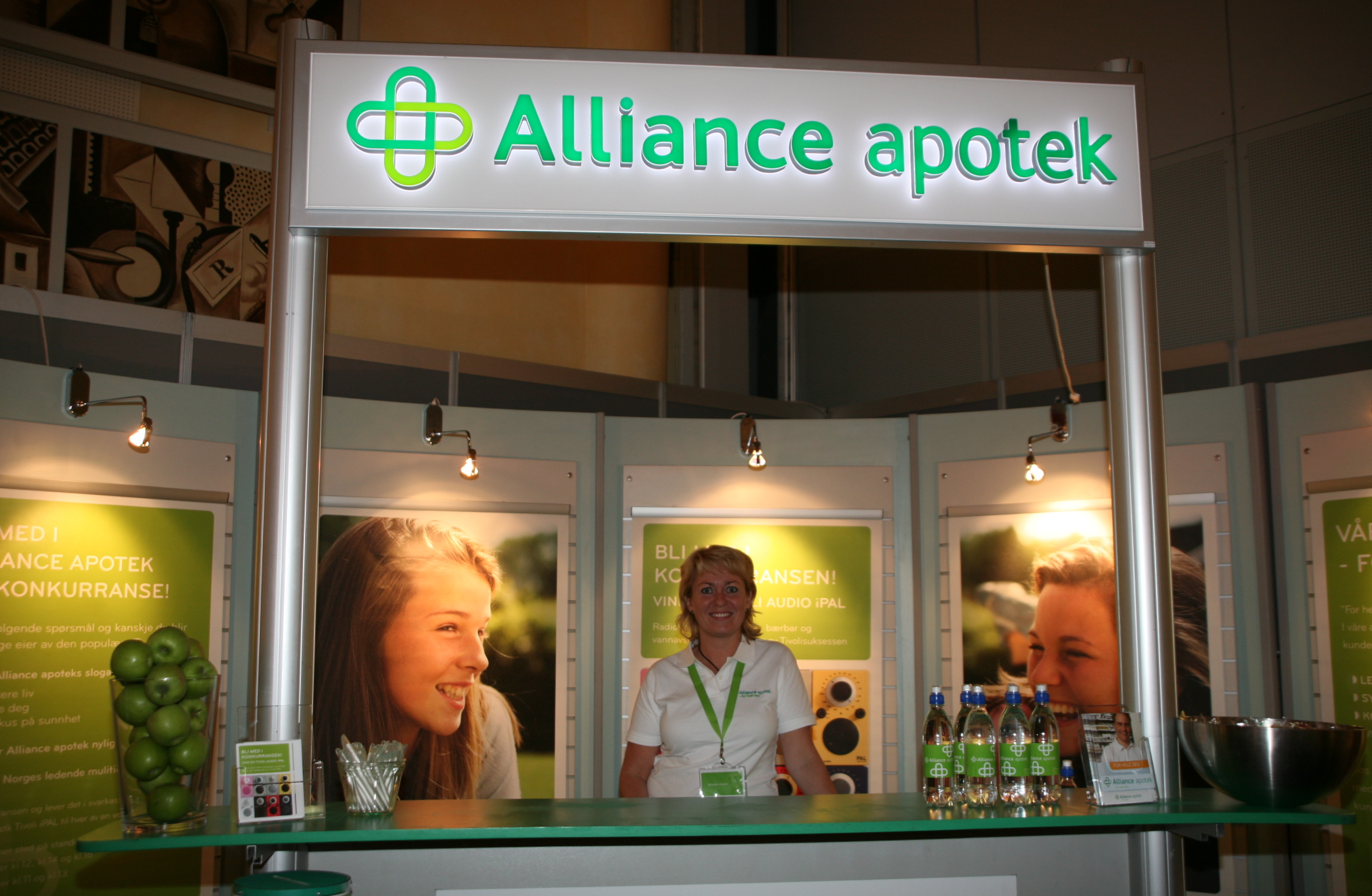 Alliance. From an exibition in Oslo 2006 with permission from Alliance